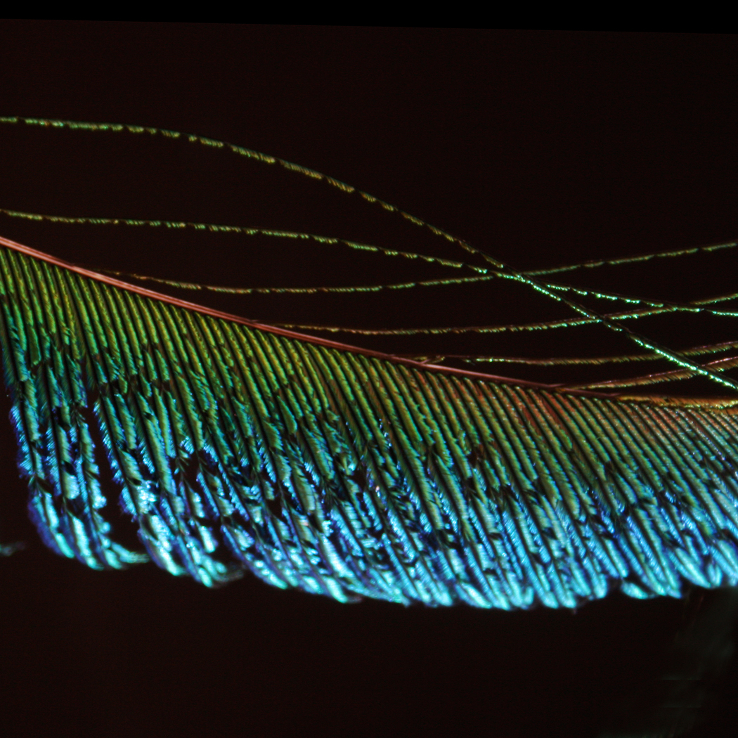 Many of the brilliant colours of the peacock plumage are due to an optical interference phenomenon (Bragg reflection) based on (nearly) periodic nanostructures found in the barbules (fiber-like components) of the feathers. Different colours correspond to different length scales of the periodic structures. Such interference-based structural colour is especially important in producing the peacock's iridescent hues (which shimmer and change with viewing angle), since interference effects depend upon the angle of light, unlike chemical pigments. Wiki